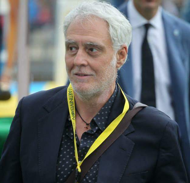 Francesco Repice, Italian journalist and sport commentator - Matusa Stadium, celebration for Serie A, May 31, 2015.